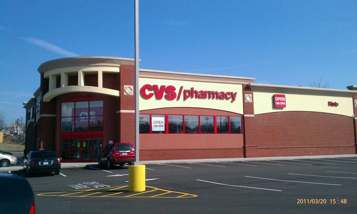 The front of CVS #4191